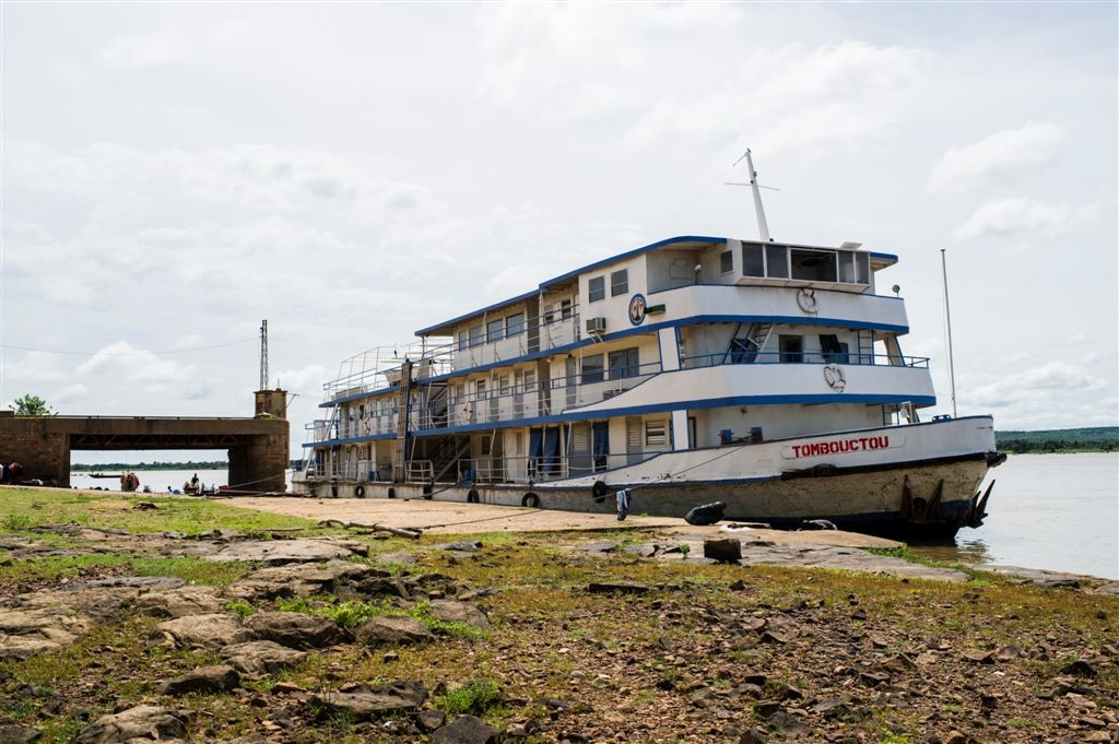 The boat Tombouctou of the company COMANOV at harbor of Koulikoro